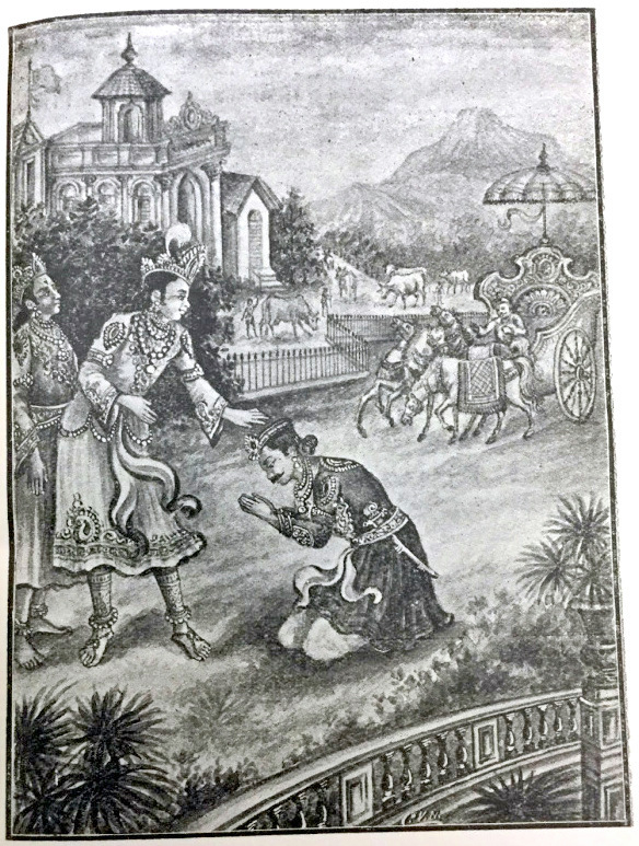 THESE ARE FROM A 100 YEAR OLD BOOK